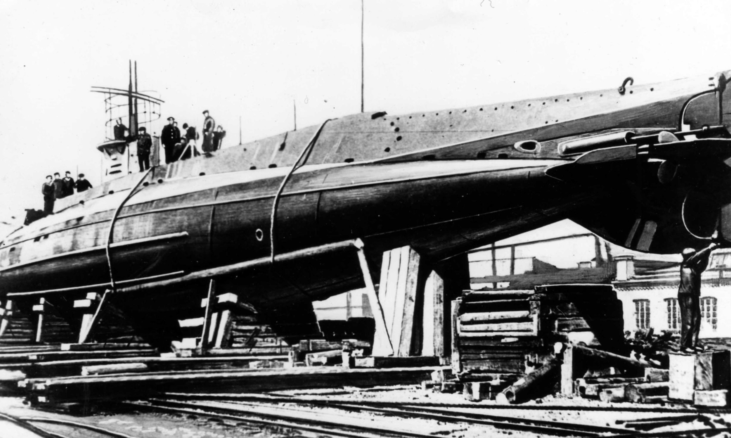 Submarine AG-14 on the dock of Baltick factory.